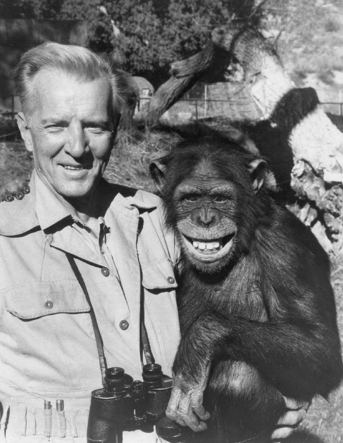 Publicity photo of Bruce Bennett and Judy the chimp from the television program Daktari.